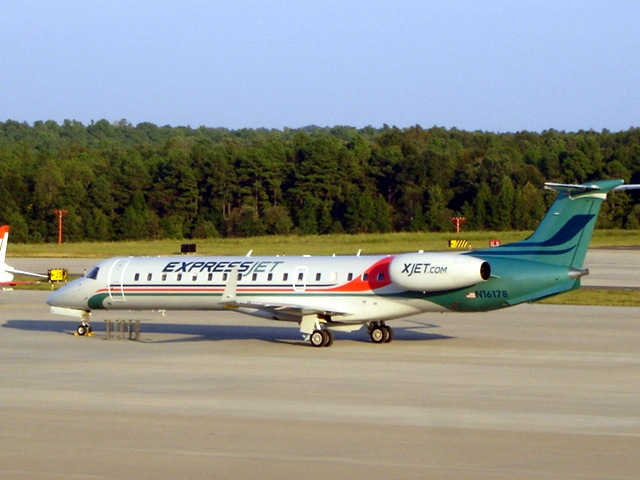 Taken at Raleigh/Durham International Airport General Aviation Terminal.